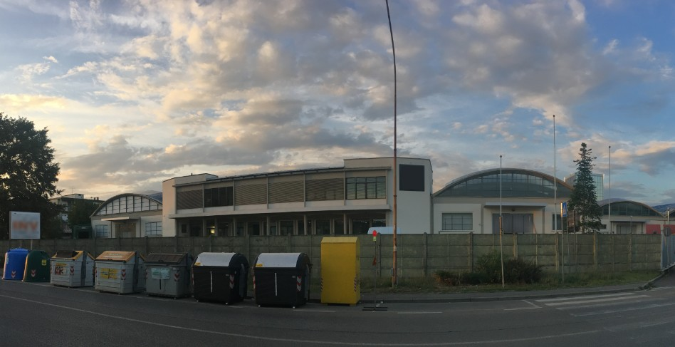 Front image of the former Superpila's headquarters, Scandicci (Florence).